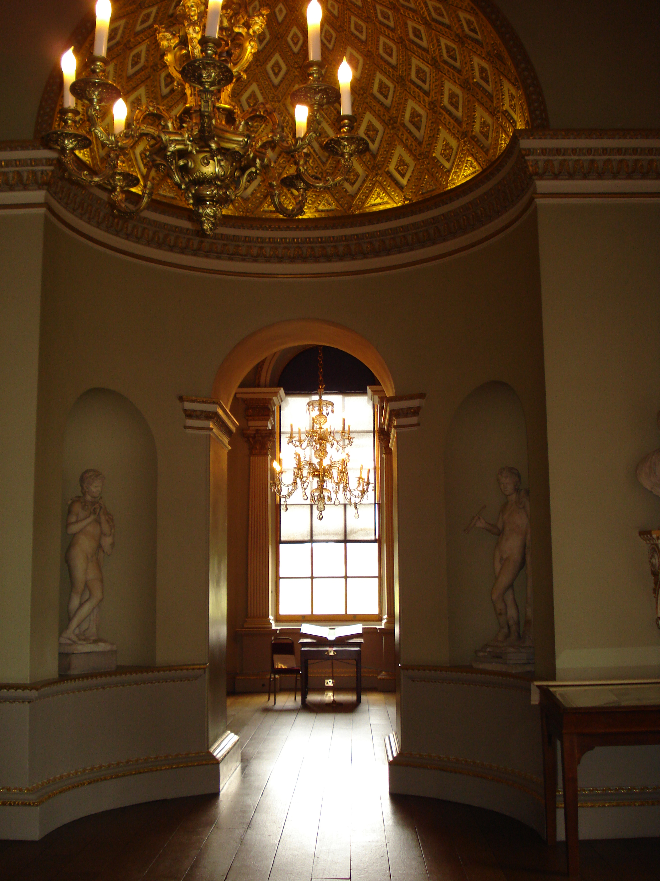 Holkham Hall-Interior2